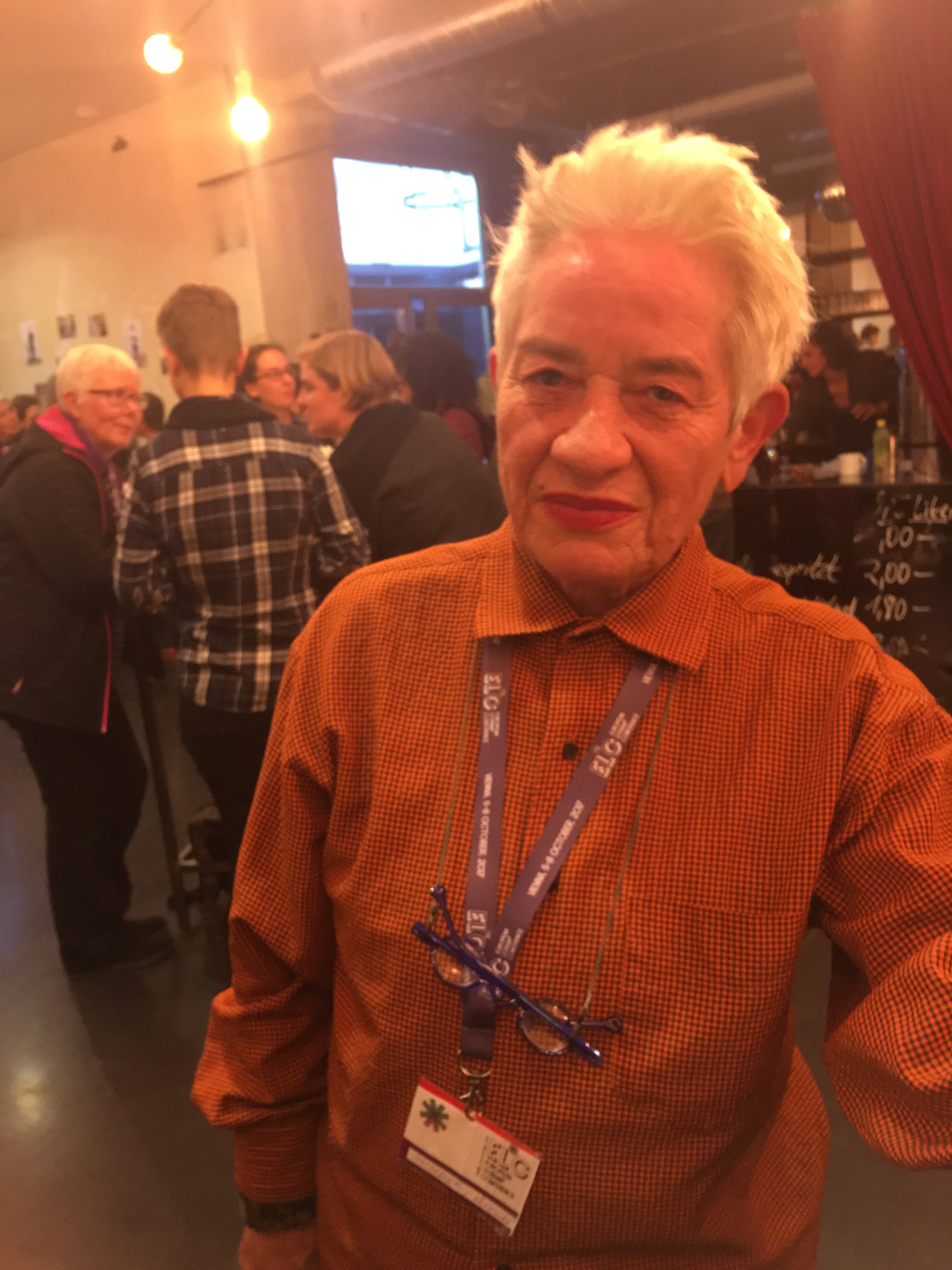 Swiss film director and feminist Veronika Minder at the European Lesbian Conference in Vienna 2017